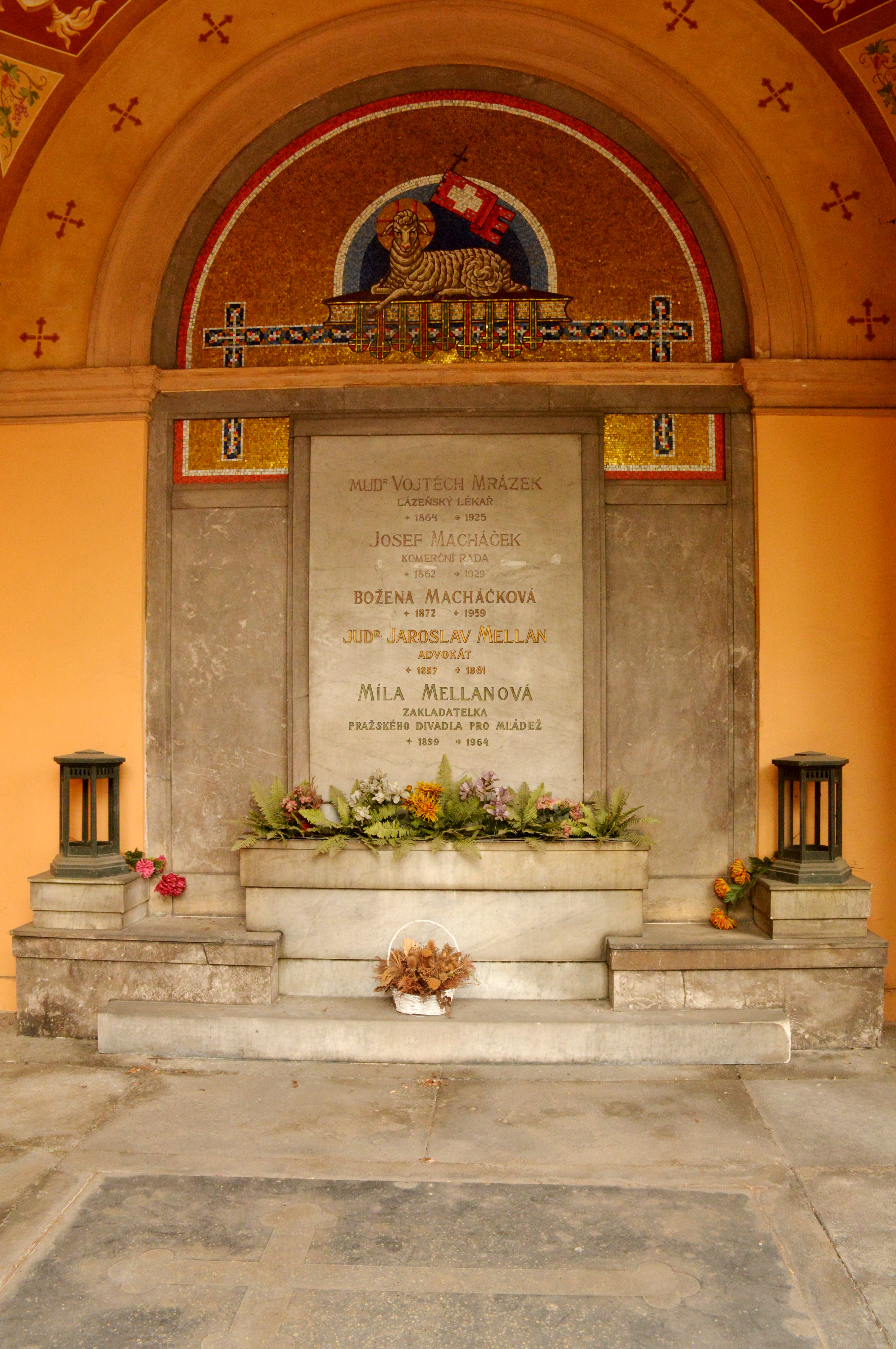 Tomb of Míla Mellanová, Czech theatre actor and director, Vyšehrad Cemetery, Prague